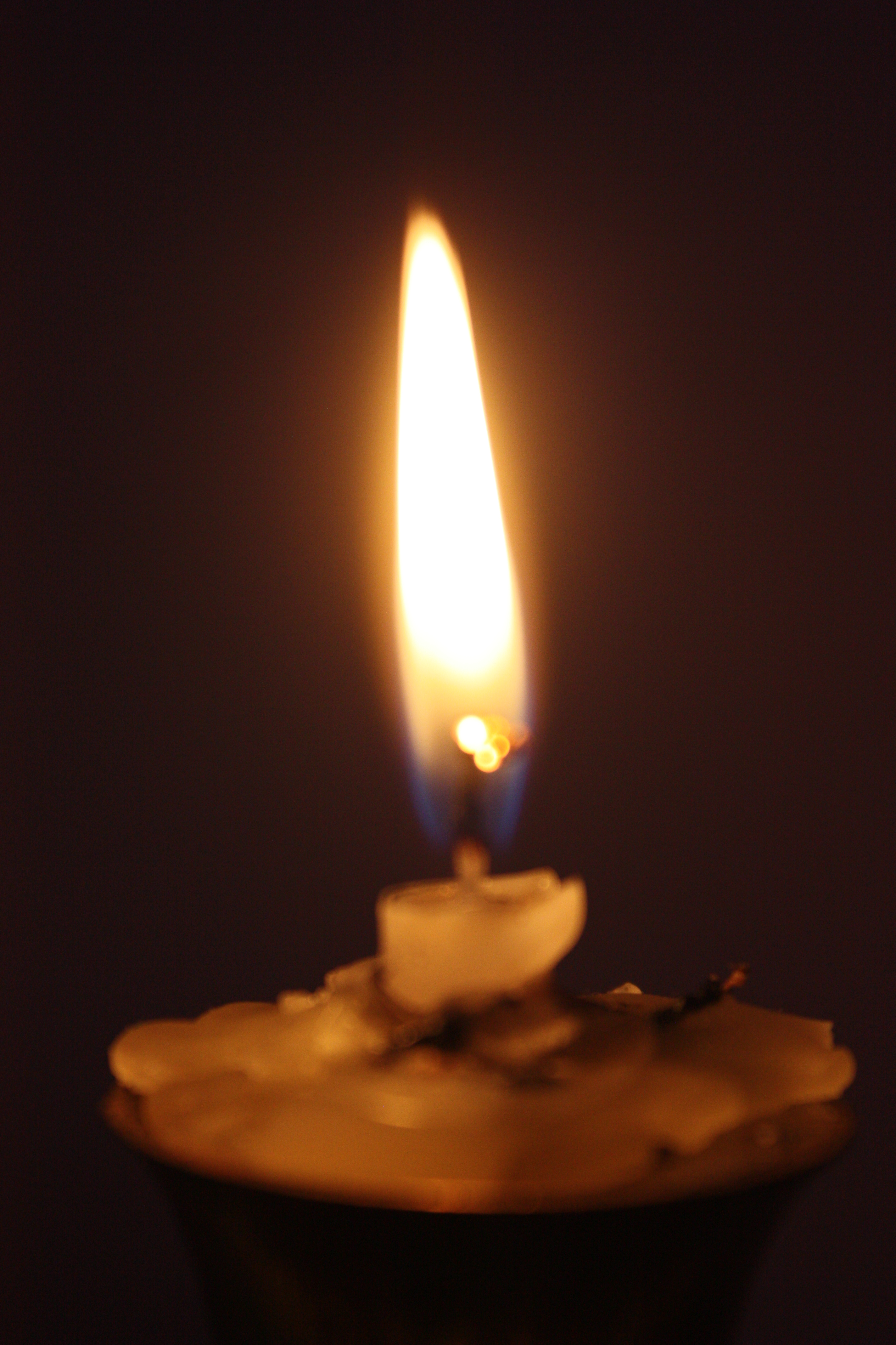 candle natural light source